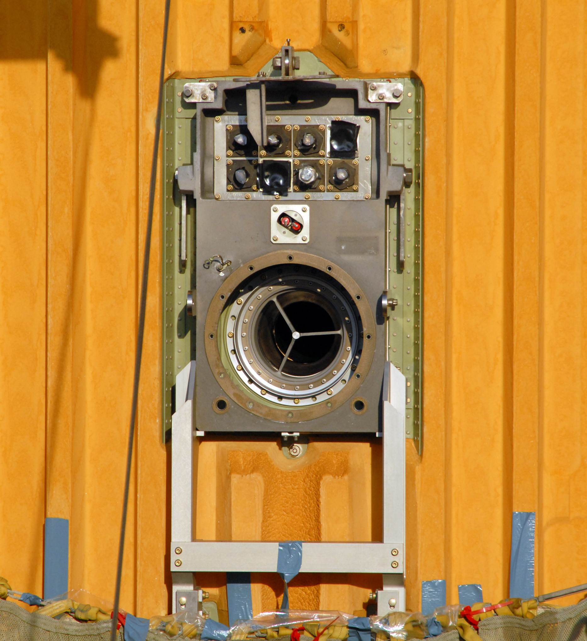 A close-up view of the Space Shuttle External Tank's gaseous hydrogen vent line (and the Ground Umbilical Carrier Plate panel) for Space Shuttle Endeavour's STS-127 mission. Workers have removed the 7-inch quick disconnect to change out seals in the internal connection points. A leak of hydrogen at the location during tanking June 12, 2009, caused the mission to be scrubbed at 12:26 a.m. June 13. The GUCP is the overboard vent to the pad and the flare stack where the vented hydrogen is burned off.